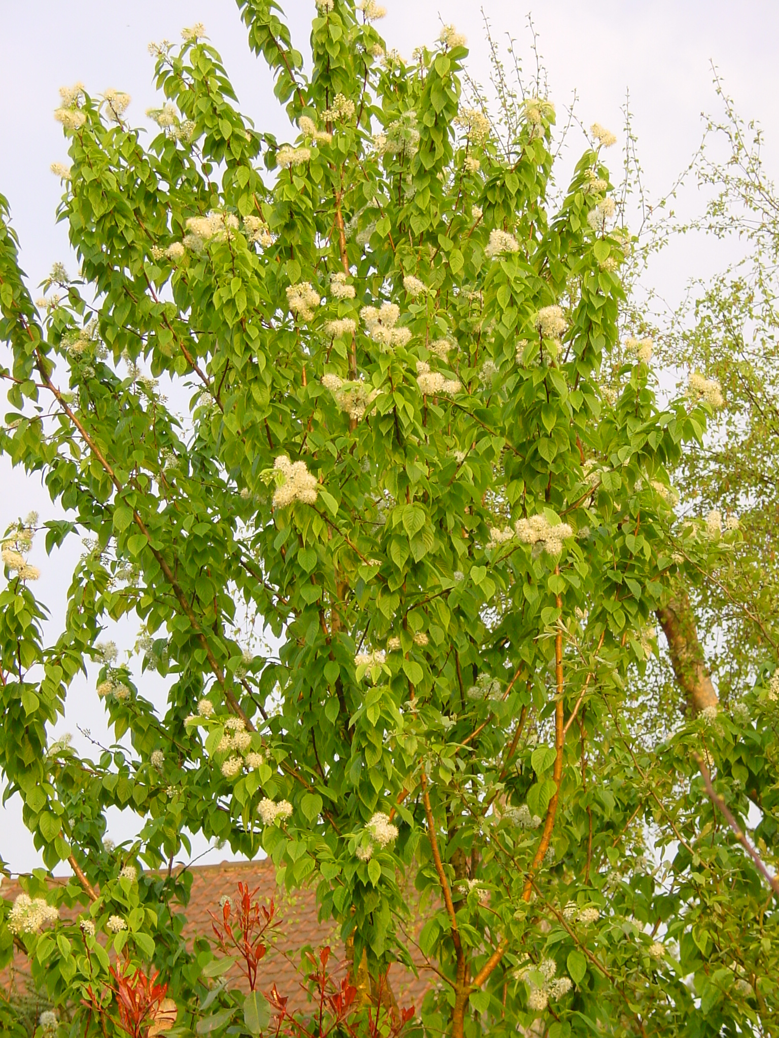 Amur Chokeberry